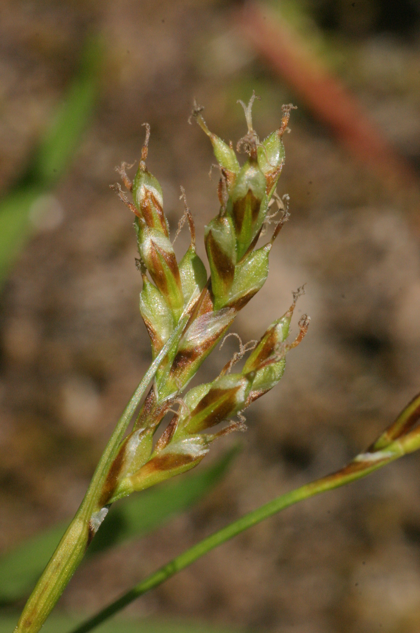 Carex ornithopoda